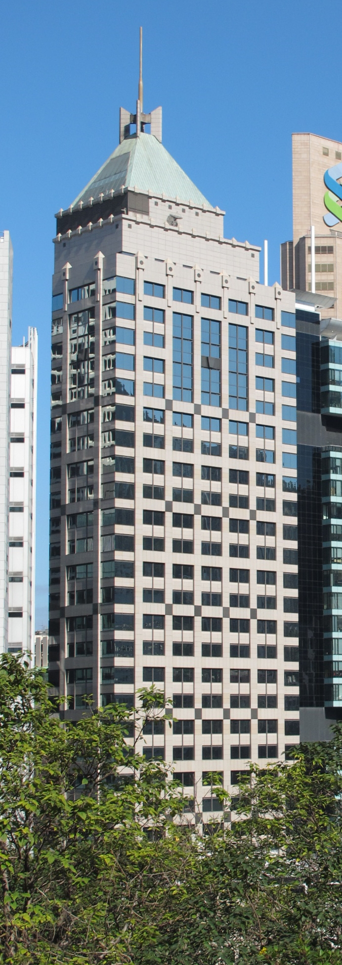 Nine Queens Road Central